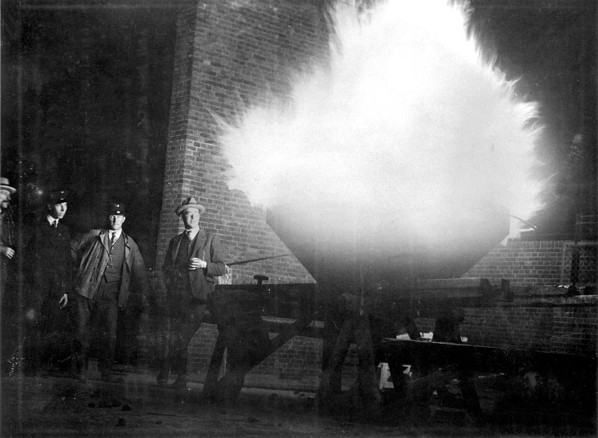 Olympic flame is lit for the first time in the history of the Olympic Games during the Games of 1928 in Amsterdam, Netherlands.